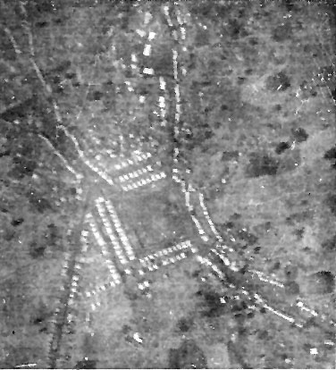 Aerial view of Saïo fortress held by the Italians